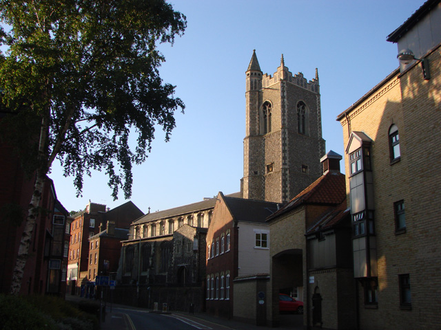 Norwich St Laurence's church, near to Norwich, Norfolk, Great Britain. In mediaeval times, Norwich boasted 56 churches within the city walls. Thirty one of these remain today. Five were lost during the Second World War in German bombing raids. Some remain as ruins others were completely demolished. Still in existence today are: All Saints, St Andrew, St Augustine, St Clement, St Edmund, St Etheldreda, St George Colegate, St George Tombland, St Giles, St Gregory, St Helen, St James, St John Maddermarket, St John Sepulchre, St John Timberhill, St Julian, St Laurence, St Margaret, St Martin at Oak, St Mary the Less, St Martin at Palace, St Mary Coslany, St Michael Coslany, St Michael at Plea, St Peter Hungate, St Peter Mancroft, St Peter Parmentergate, St Saviour (to give it its proper name �The Transfiguration of our Saviour�), St Simon and St Jude, St Stephen, St Swithin and the tower of St Benedict and remains of St Bartholomew and St Peter Southgate. They almost all suffered some damage during the war but have been repaired or the remains consolidated. With the exception of St Michael at Thorn, which was completely demolished. The Eastern Daily Press offices now stand on the site. The name Thorn Road is the only reminder of its whereabouts. Many are no longer used for religious purposes but have been converted into offices, welfare centres and community resources. See other images of Norwich Churches